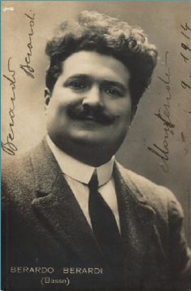 Photo of Berardo Berardi, archivio Berardi, with inscription signed in 1914